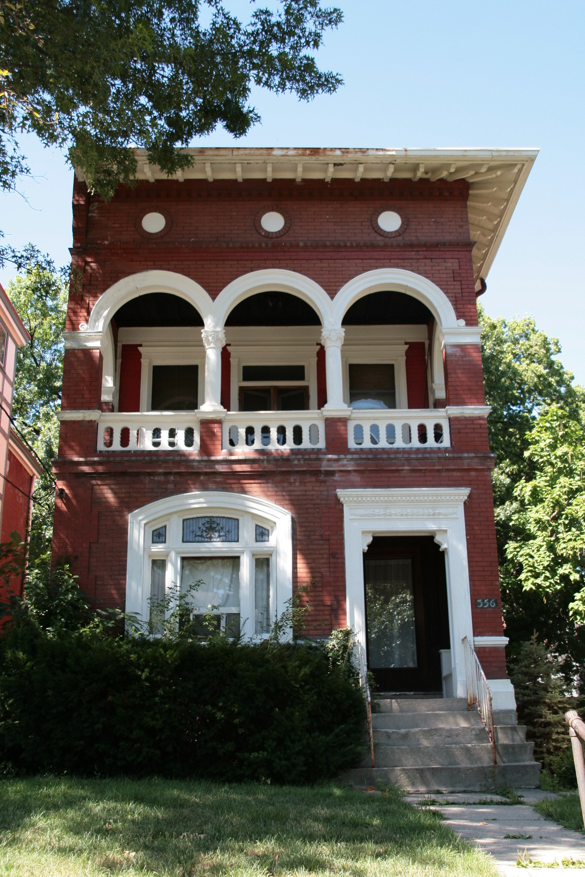 Moses Goldsmith Building Photo by Greg Hume.